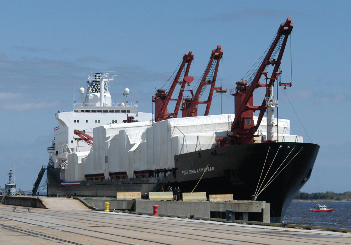 MV TSgt John A. Chapman (T-AK-323) of the United States Navy during renaming ceremony.